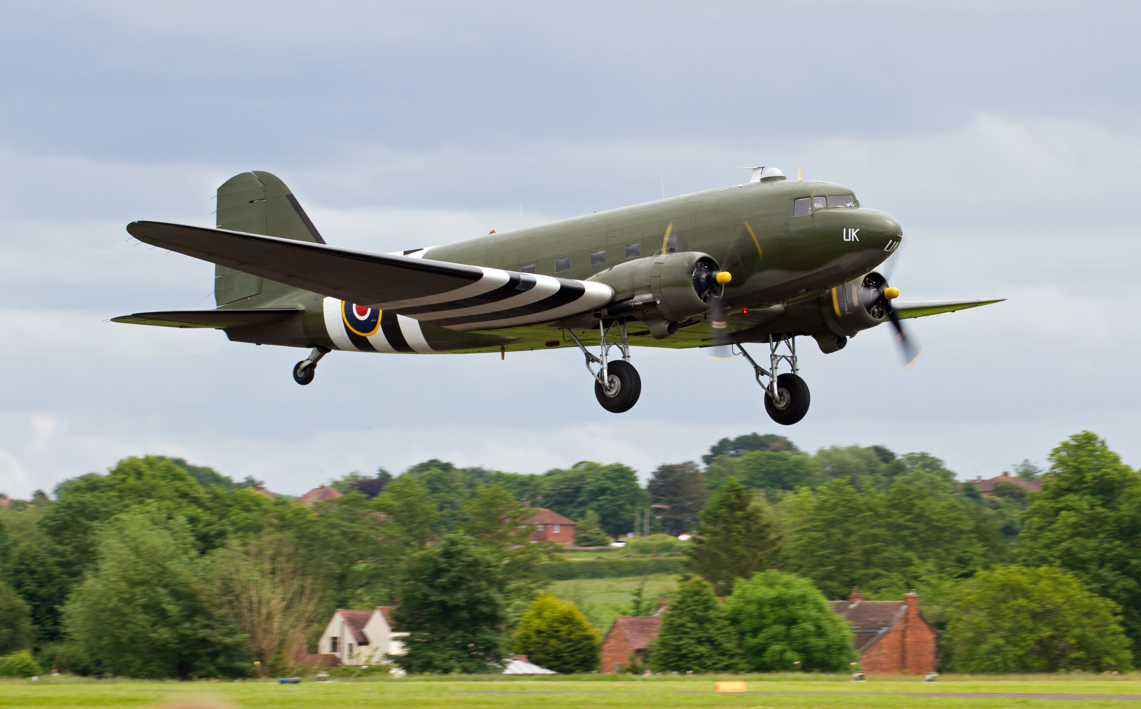 Cosford Airshow 2014